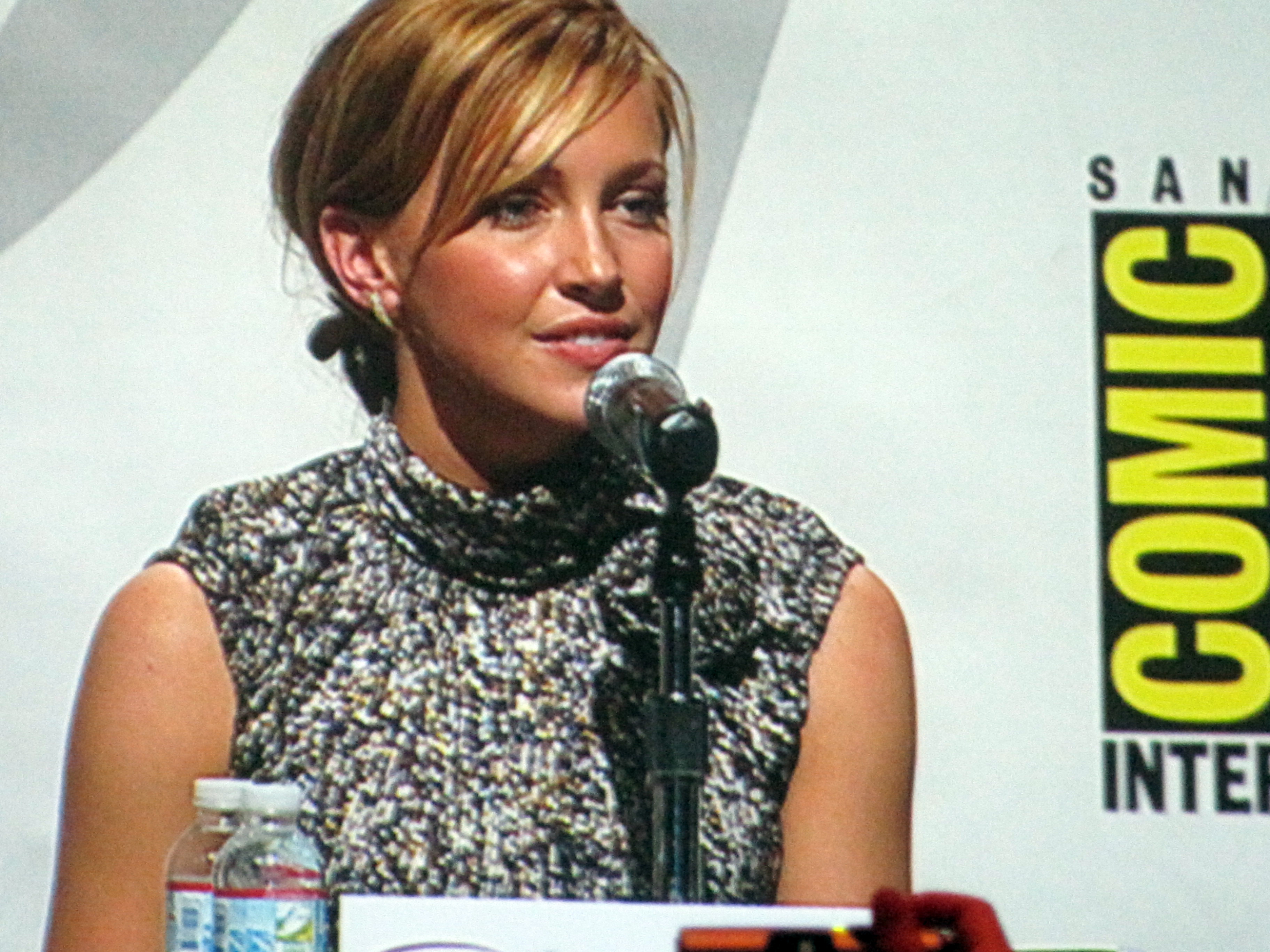 Actress Katie Cassidy participating in the panel for A Nightmare on Elm Street at WonderCon 2010.